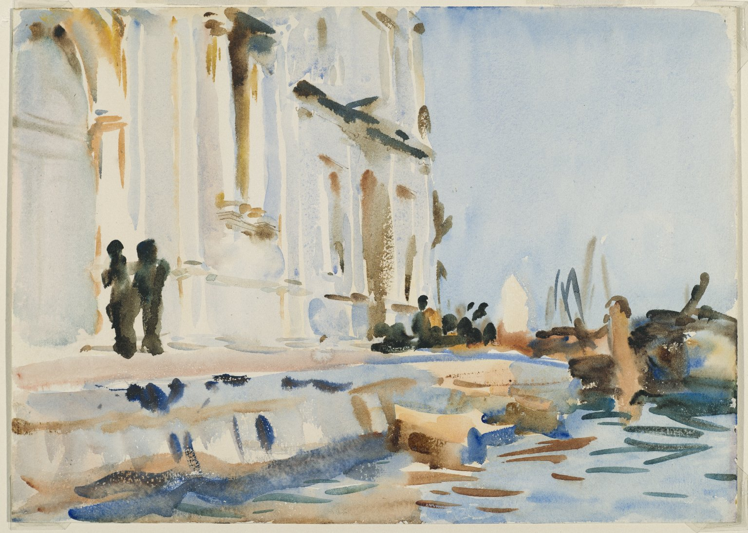 Church and school of Santo Spirito, Zattere